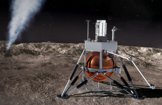 Triton hopper